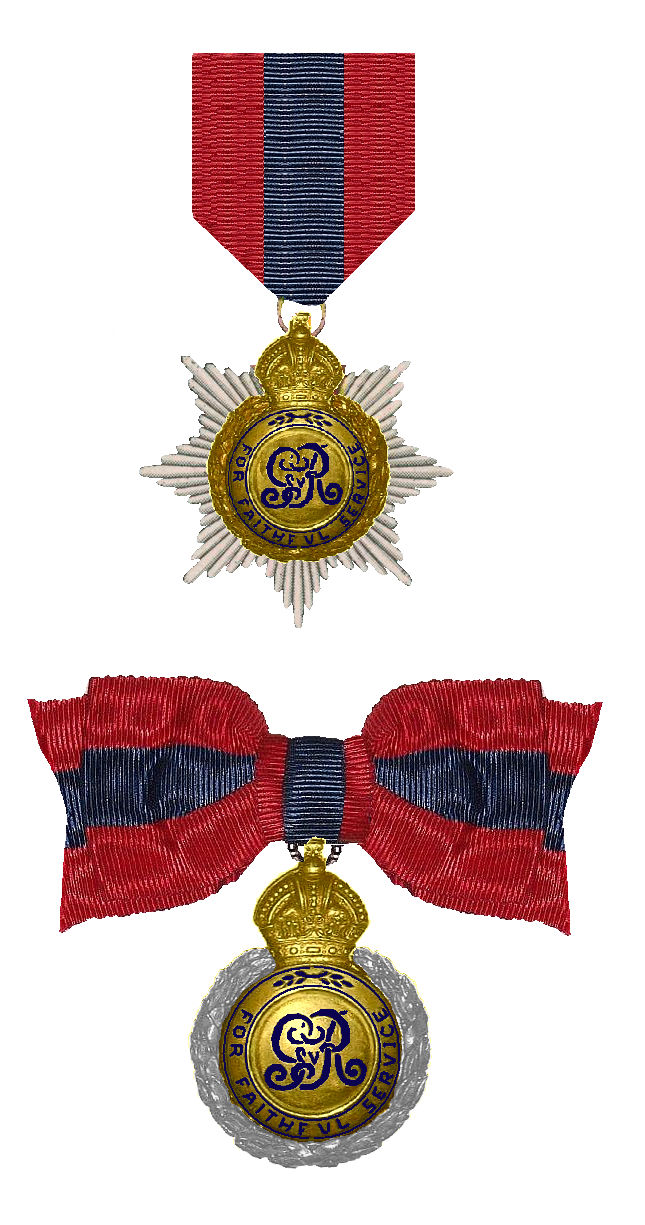 Imperial Service Order George V issue 1911 - 1936